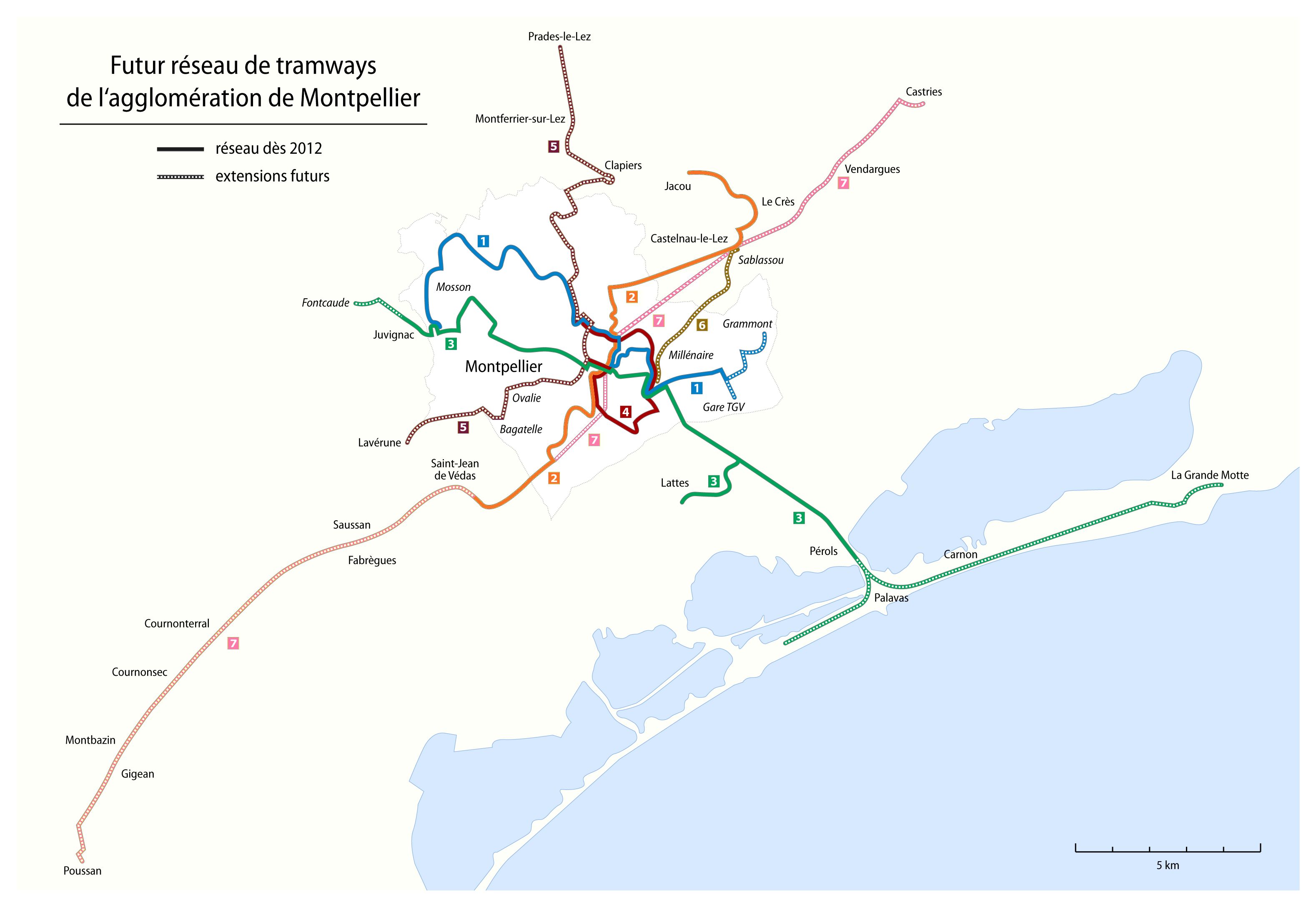 Map of the Montpellier future streetcar network